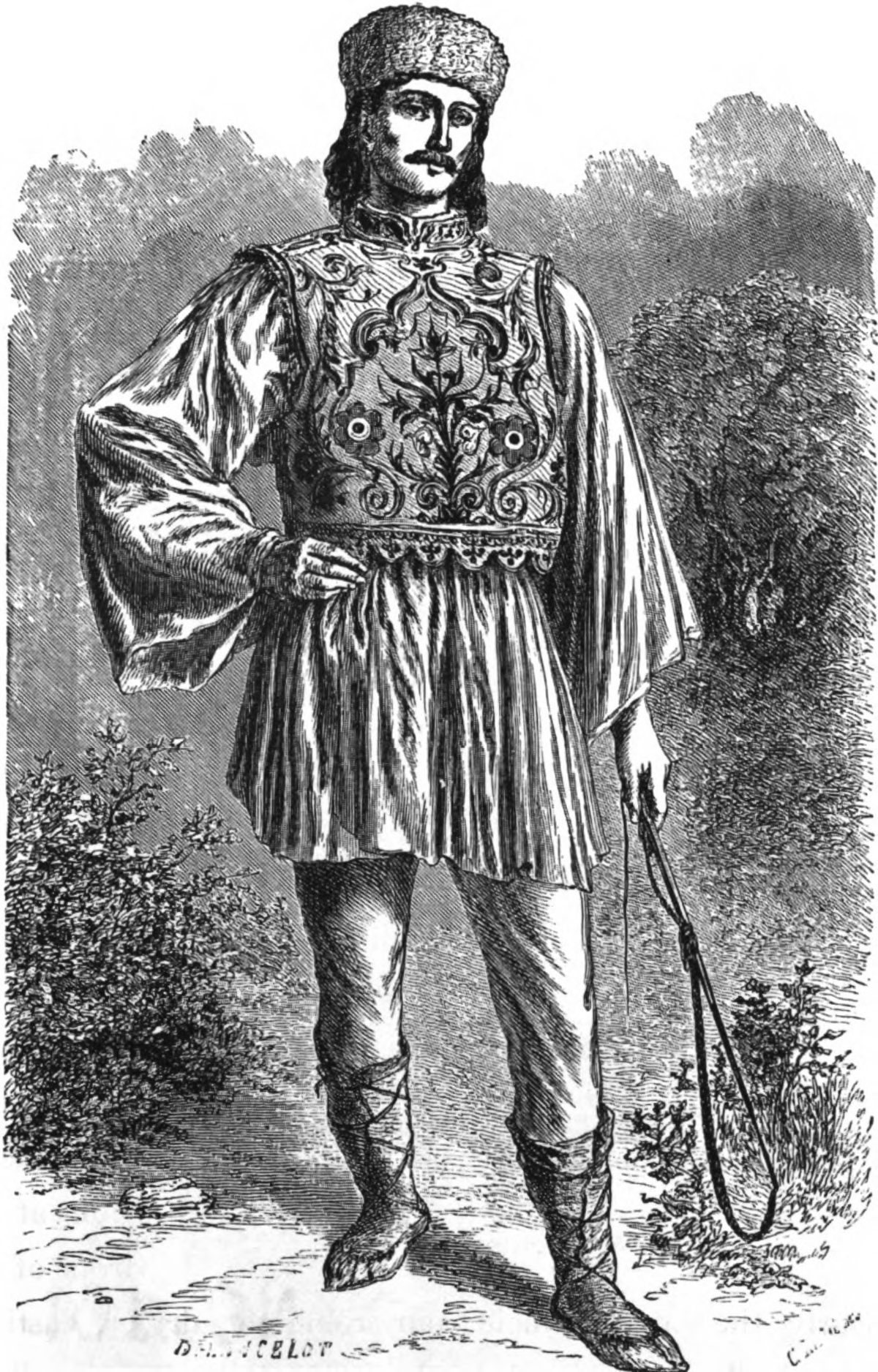 Wallachian male peasant (1860).